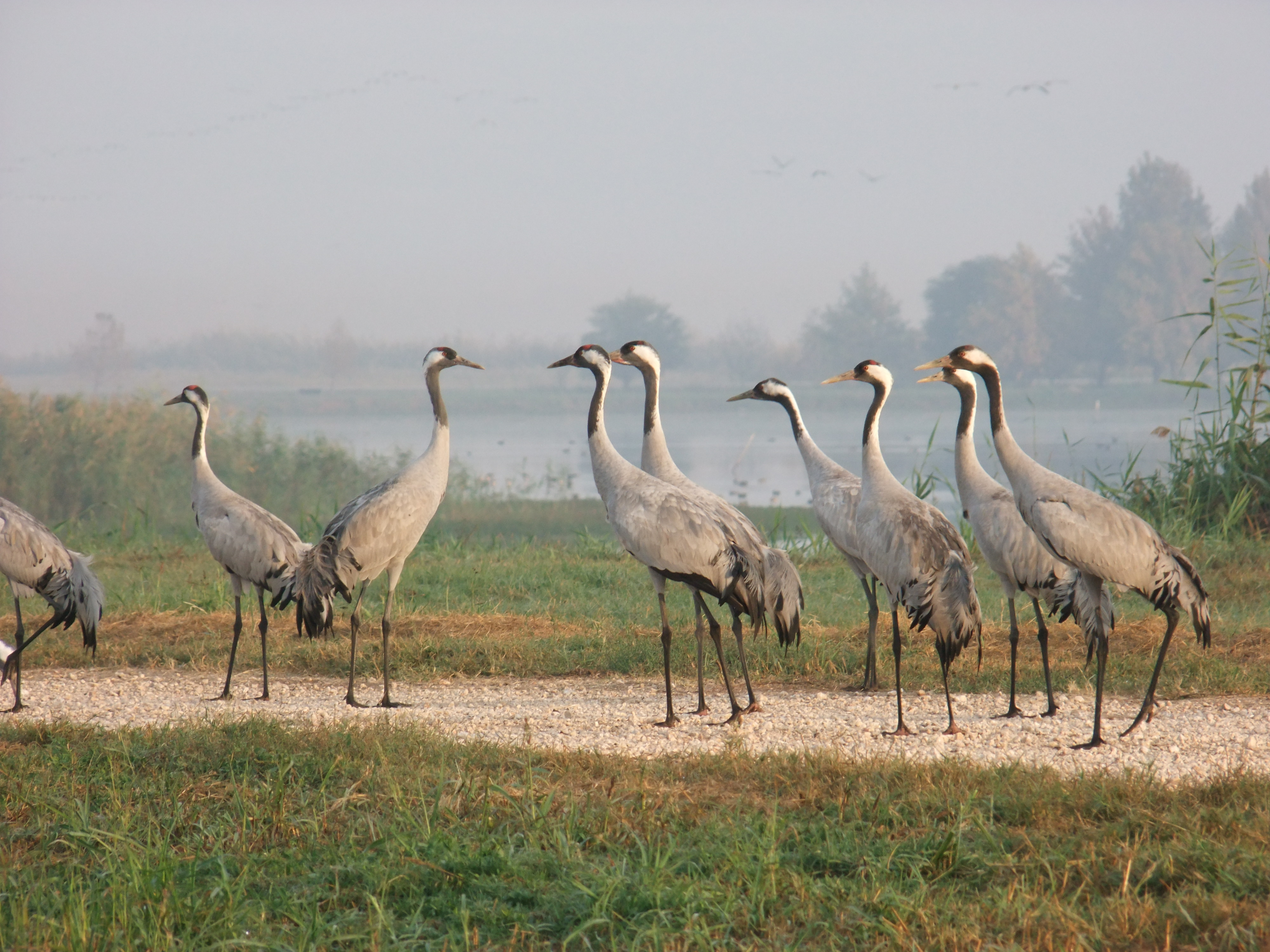 Migration season - fall 2010 Cranes